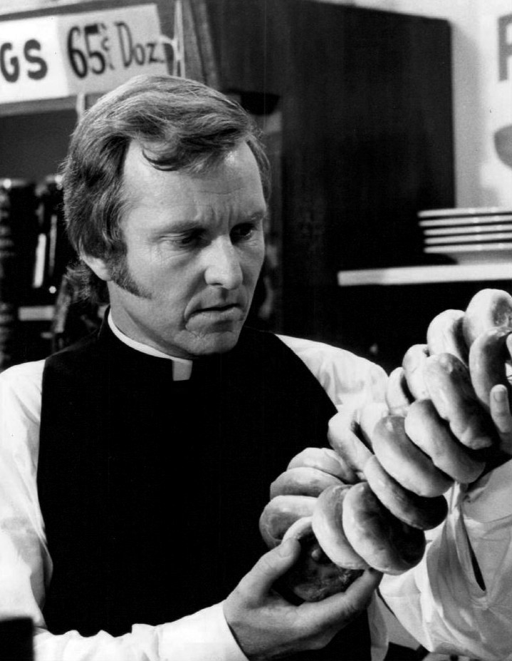 Photo of Robert Sampson as Father Mike from the television program Bridget Loves Bernie. In this scene, Father Mike is at Steinberg's deli for the Archbishop's weekly supply of bagels.